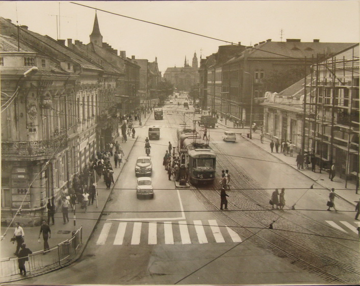 Tramway in Hlavna Street in Kosice